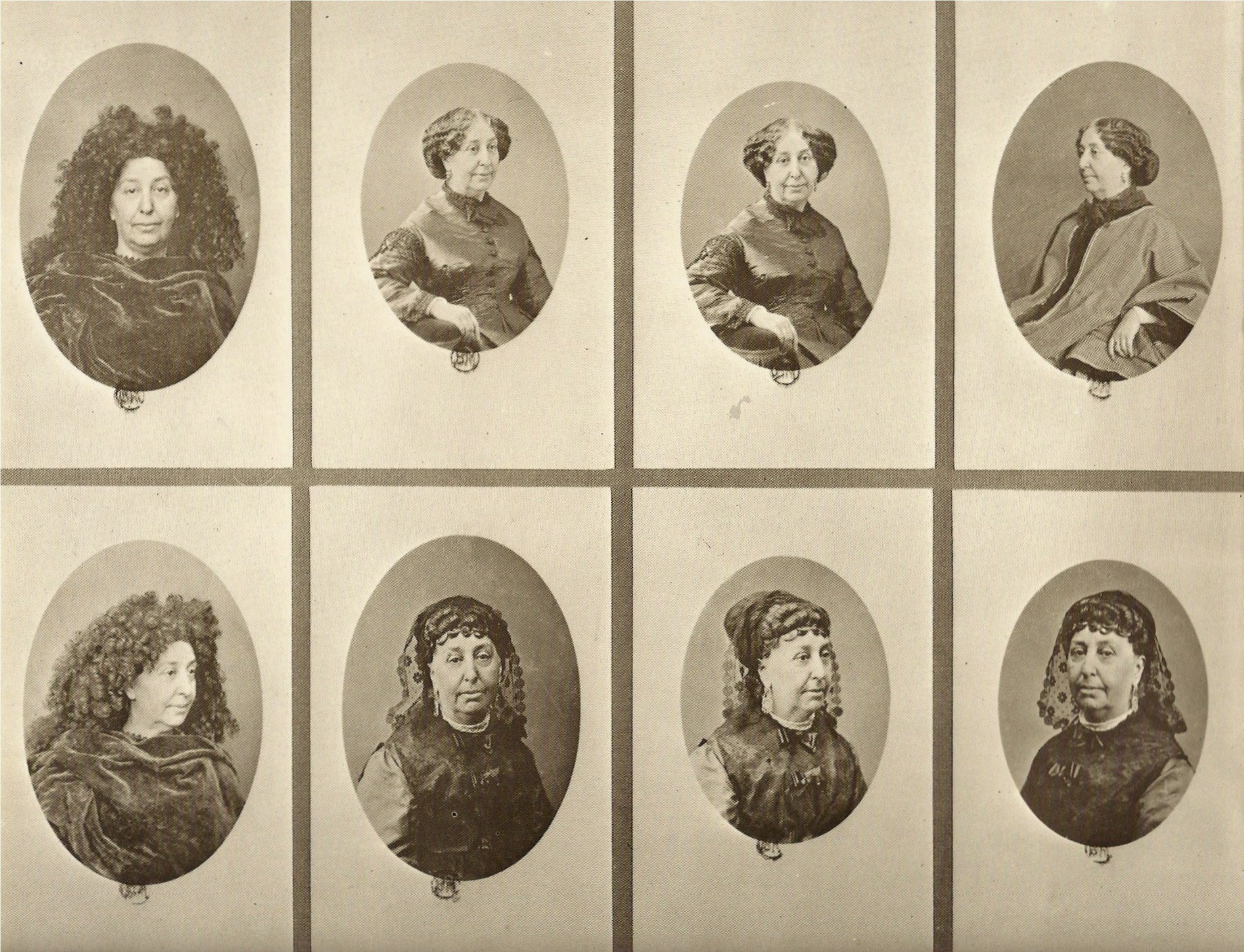 Photography of George Sand by Félix Nadar